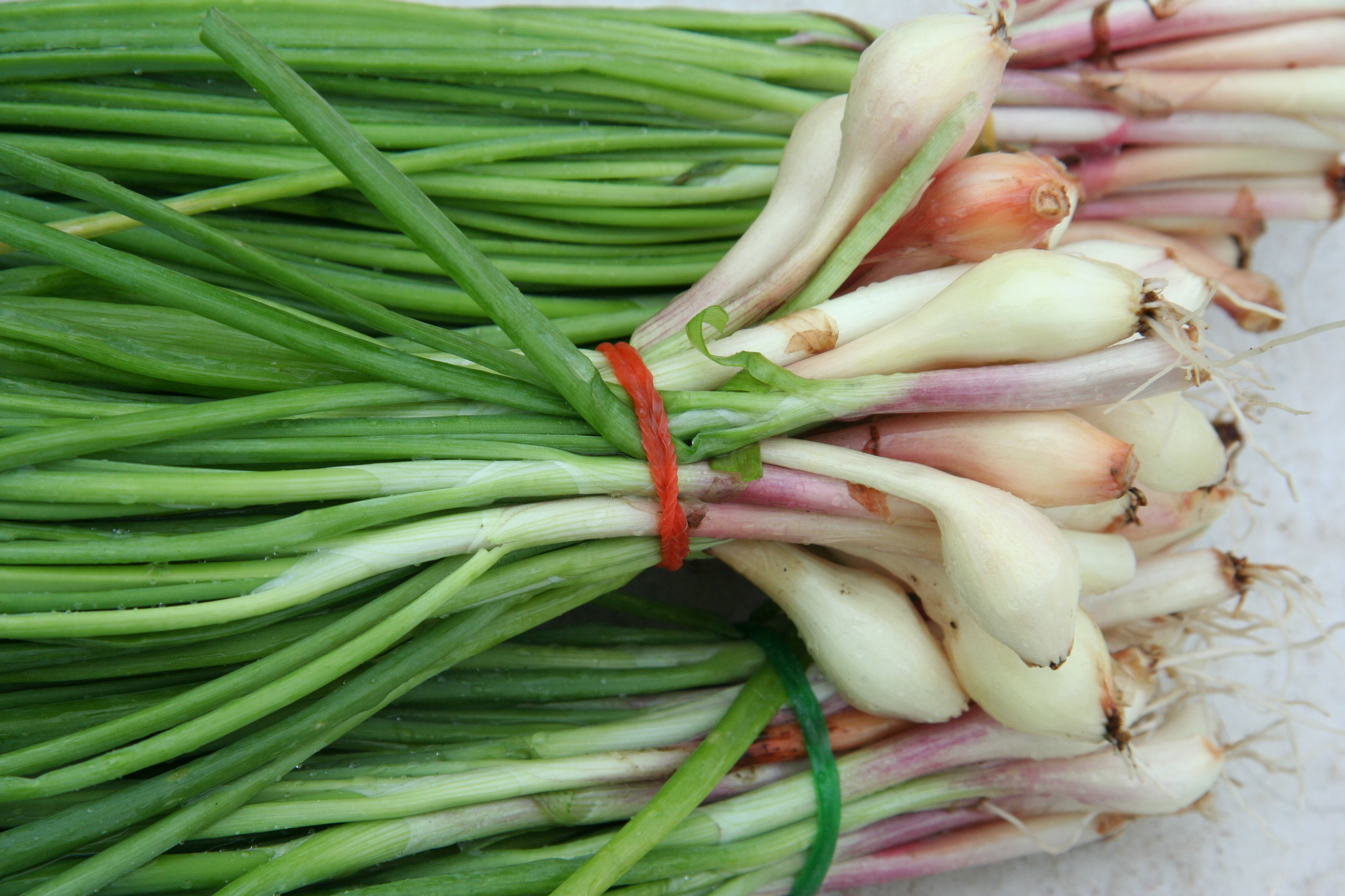 Bunches of scallions / green onions (Allium fistulosum) tied with rubber bands on sale at an outdoor farmers' market in Rochester, Minnesota